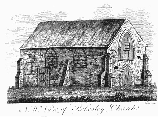 Engraving of the former church of St Botolph, Ruxley, Kent (now southeast London), published in The History and Topographical Survey of the County of Kent, Volume II, by Edward Hasted. Originally published by W Bristow, Canterbury, 1797.